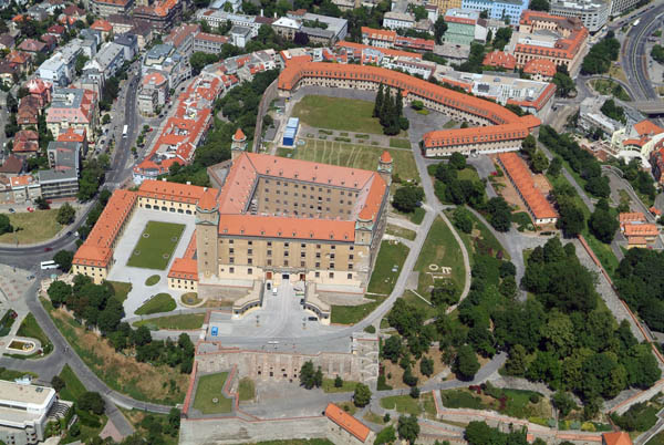 Bratislava, Slovakia, aerial photographgy, castle